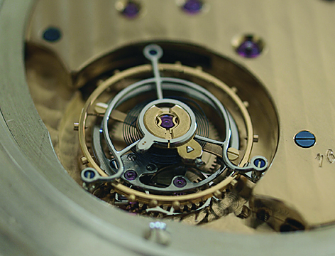 Cutting out Single Axis Tourbillon apprenticeship pocketwatch from Thomas Prescher